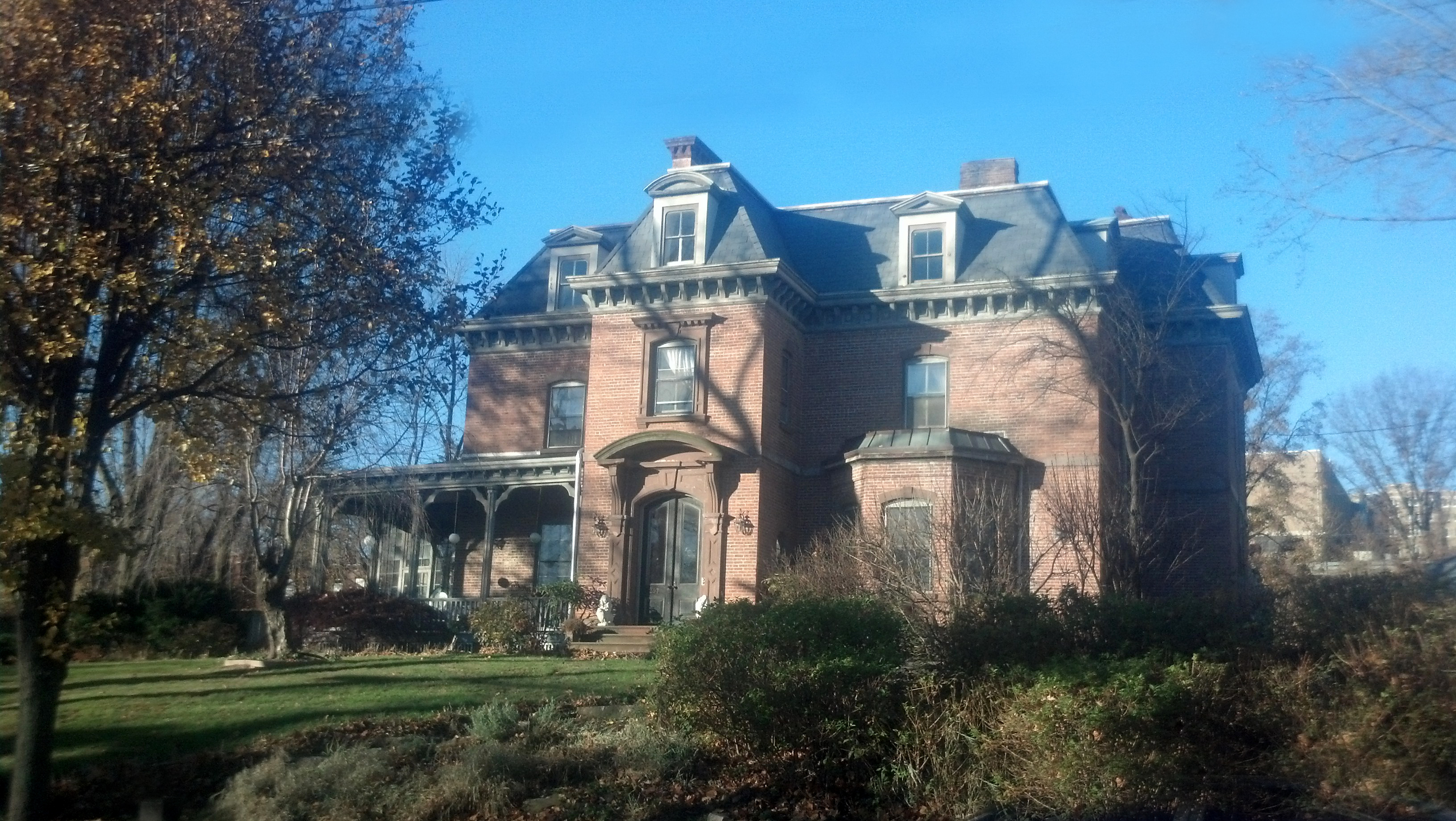 The mansion that William Fullerton built in Newburgh, New York, in 1868